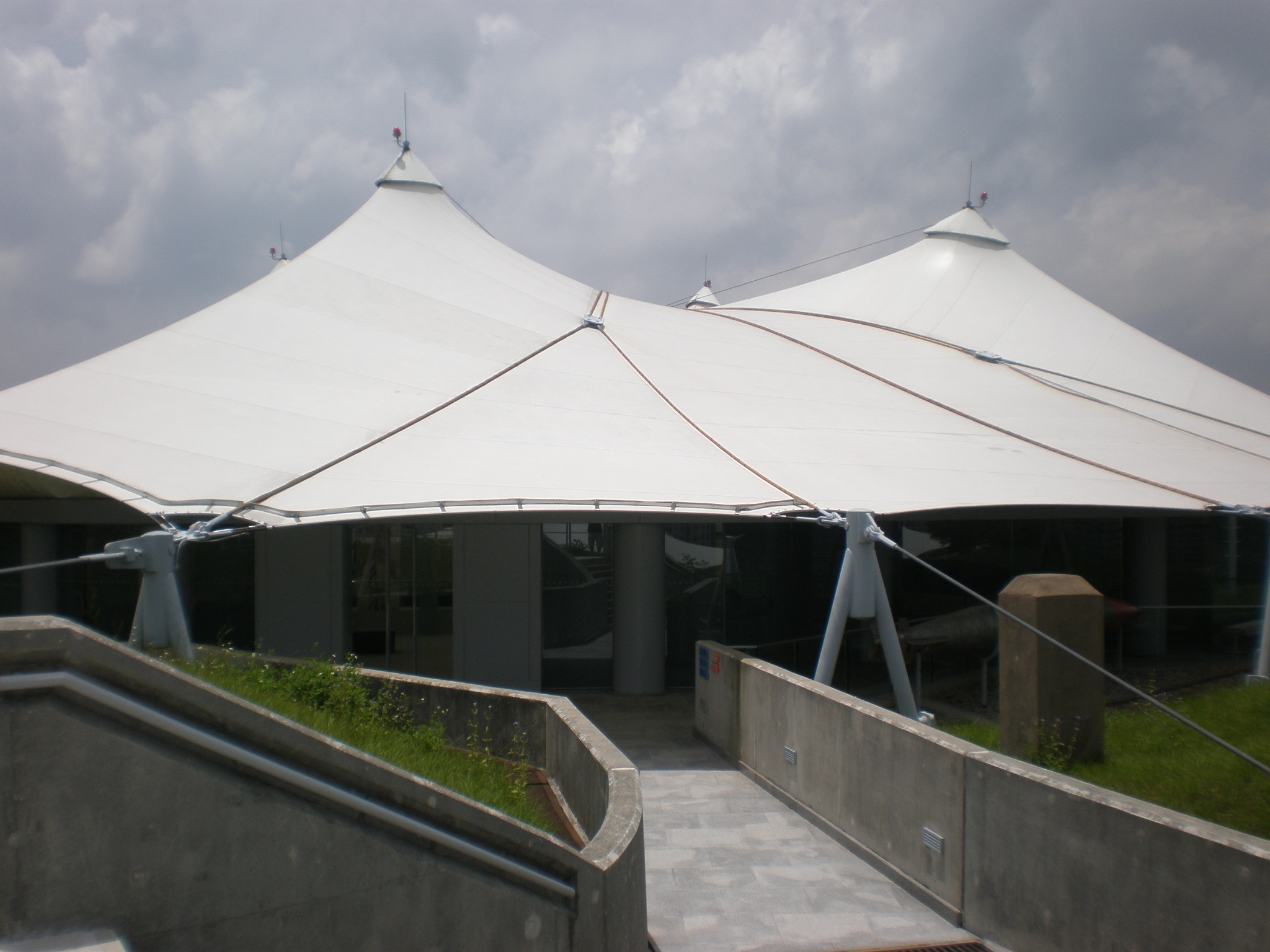 The exterior of the Redoubt of Lei Yue Mun Fort, in which the museum's Permanent Exhibition is housed, as seen from the walkway leading to the 6 inch BL Mk IV disappearing guns. The fort now forms a large part of the Hong Kong Museum of Coastal Defence.